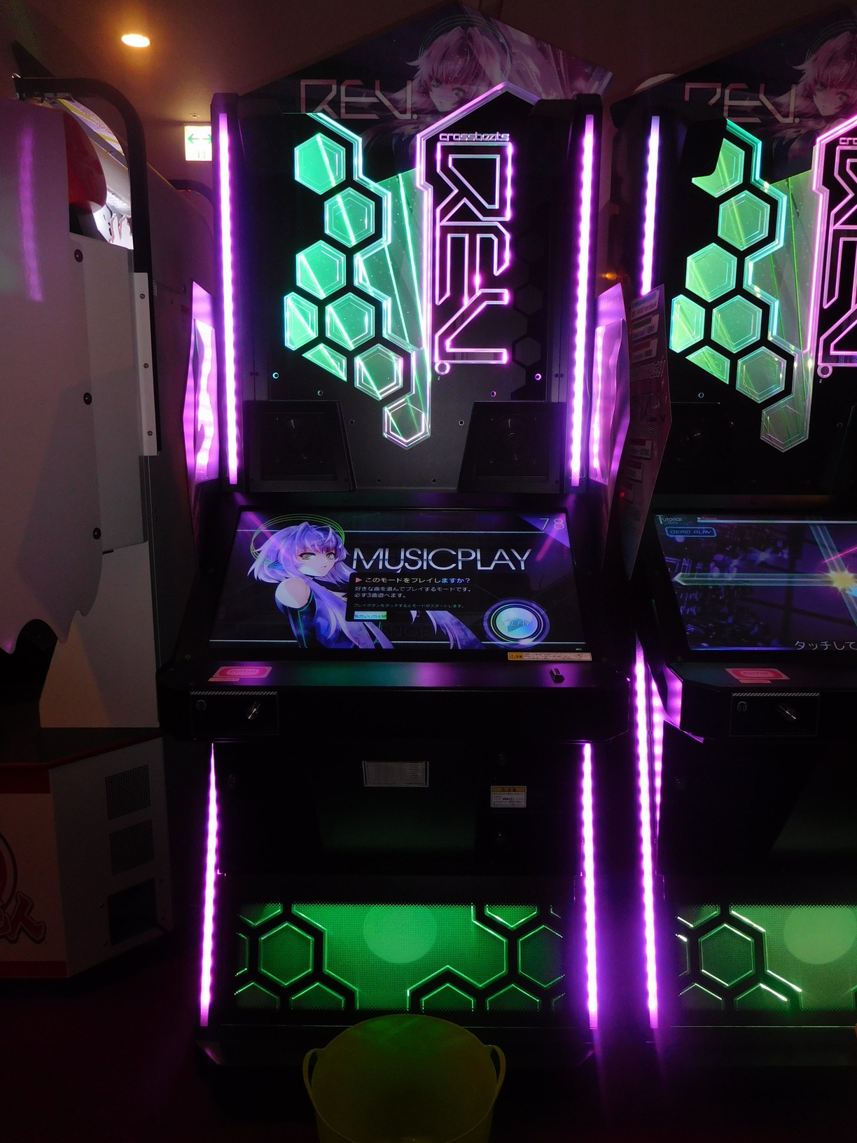 Capcom - "crossbeats REV."